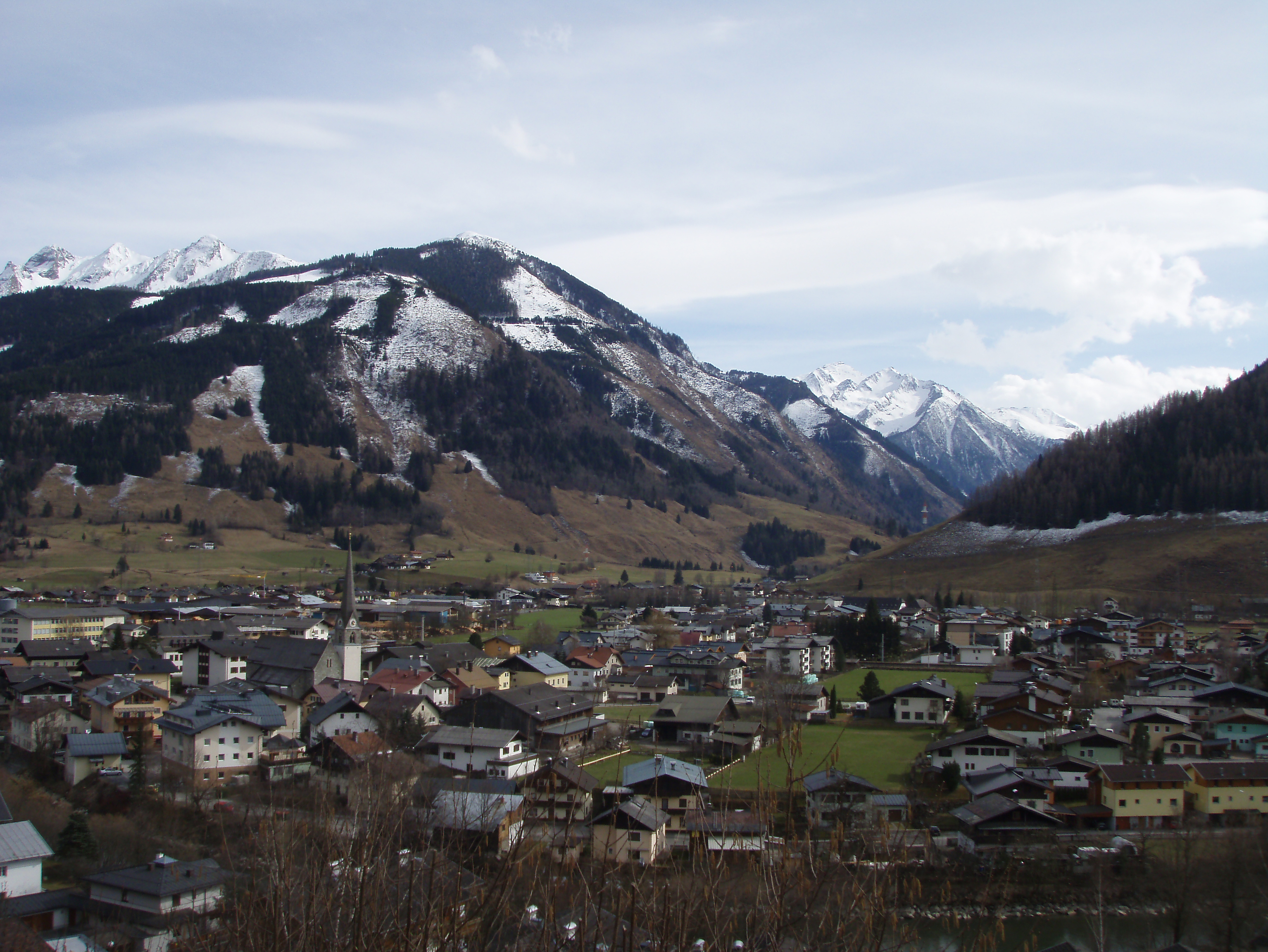 Bruck an der Großglocknerstraße, Salzburg (state), Austria, with the Fuscher Valley in the background.